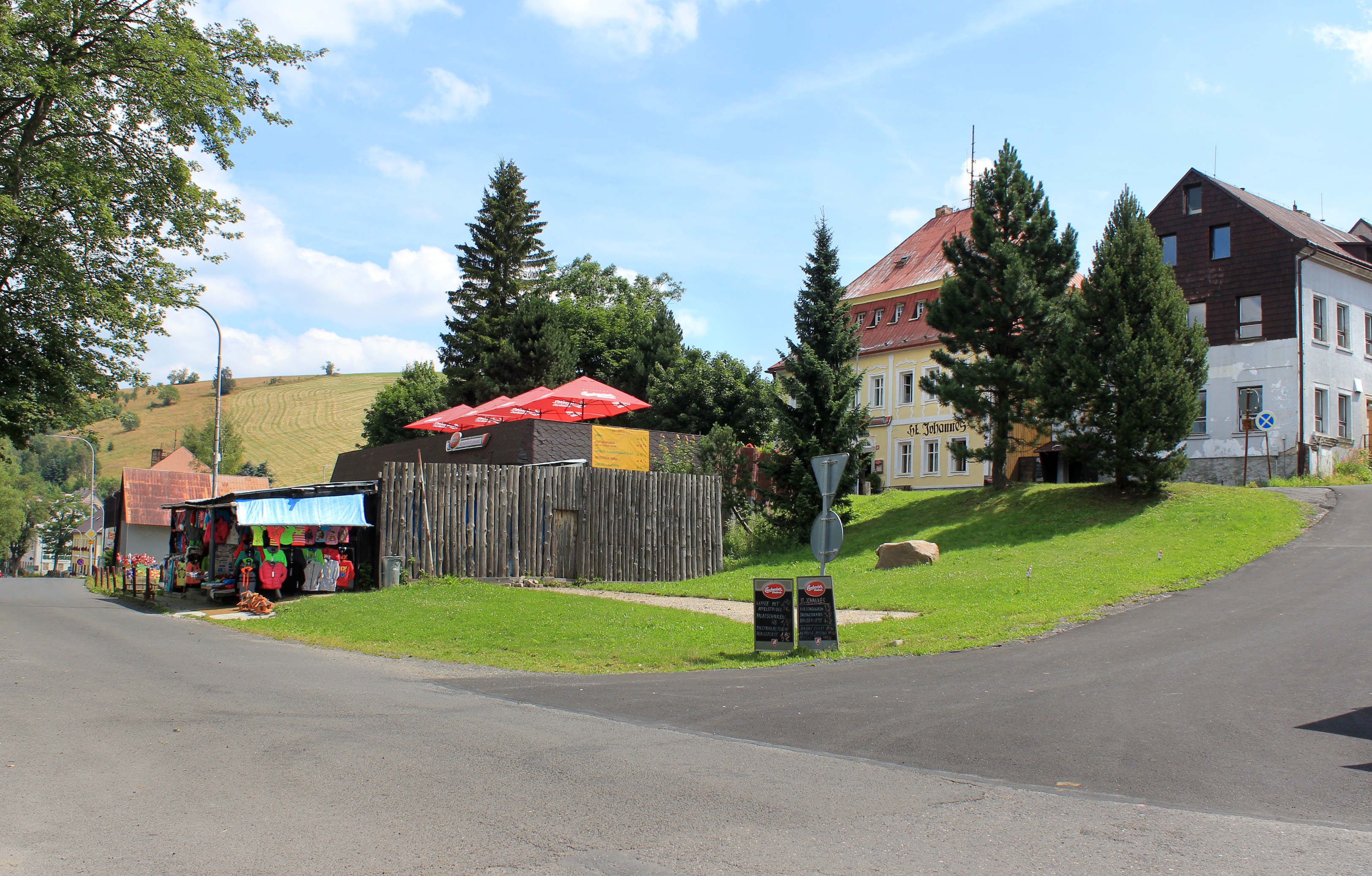 Middle part of Loučná pod Klínovcem, Czech Republic.